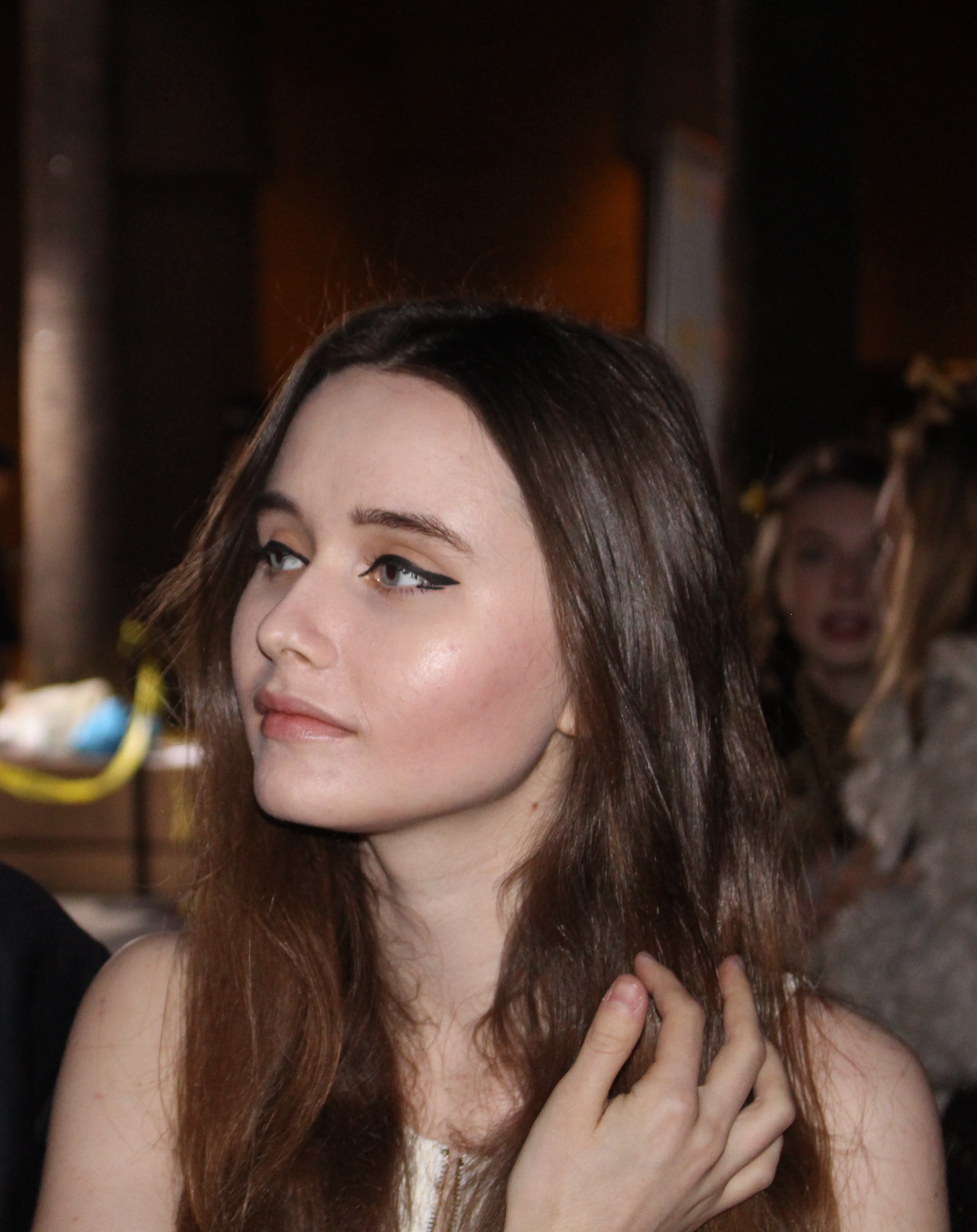 Kansas Bowling